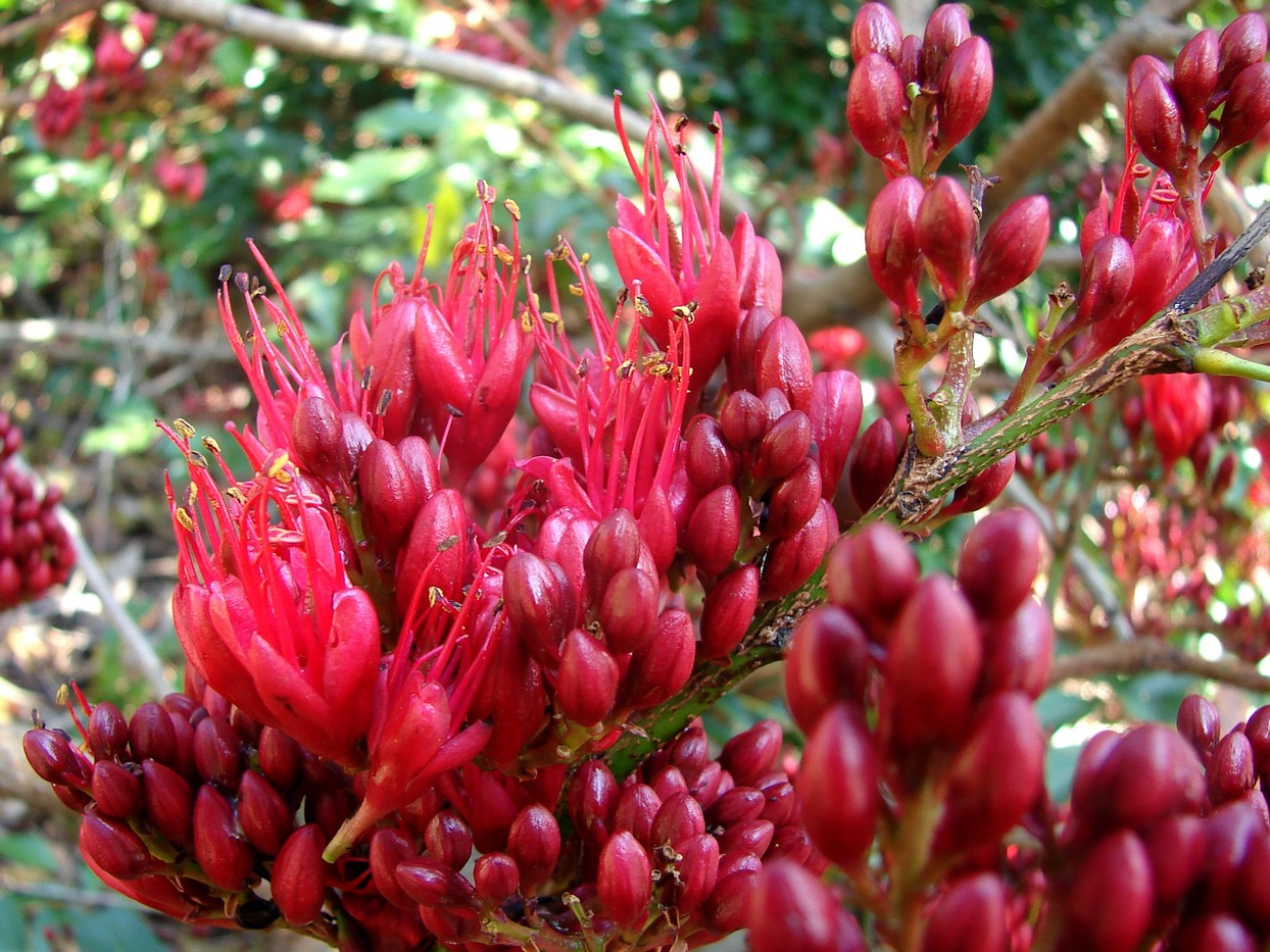 Mass of glossy deep crimson buds and flowers on the small tree. "It produces a lot of sweet nectar, a nectar that is a sugary juice. If it ferments in the heat of the sun it can produce alcohol" Tree native to South Africa. Photo taken in Australia, Brisbane